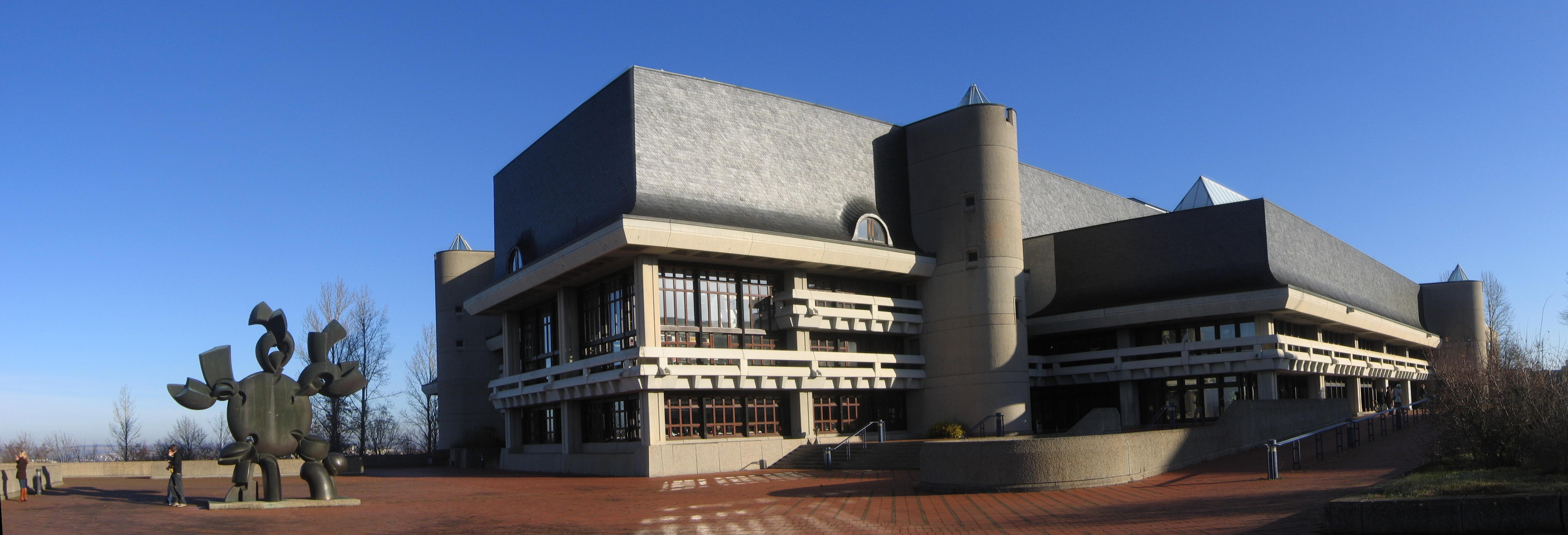 Bibliothek, Hubland Campus, Würzburg; Panorama